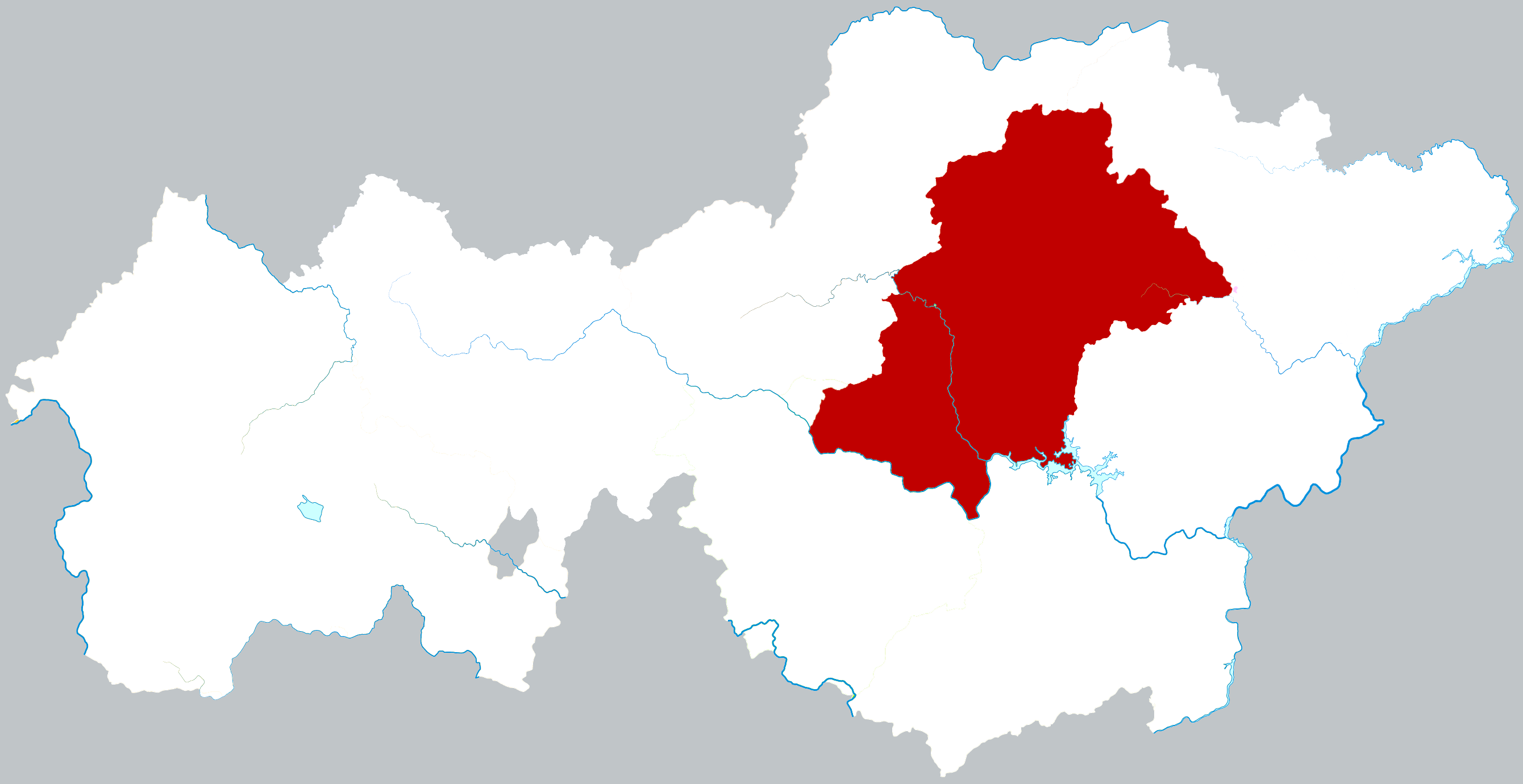 Location of Dafang county in Bijie city, China